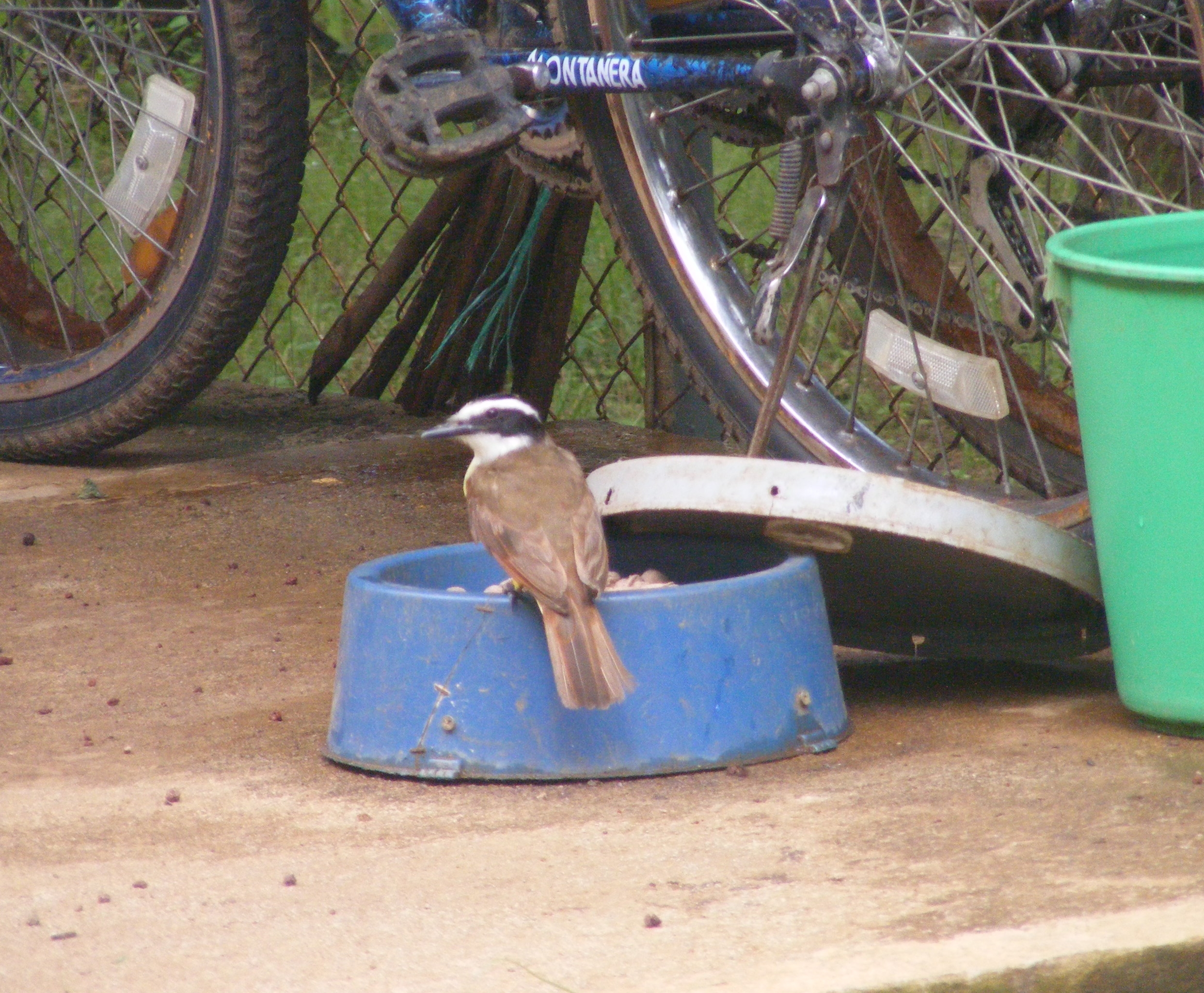 This picture shows a Great Kiskadee eating from an unguarded bowl of dog's food. His opportunistic behavior is one reason that the Great Kiskadee is so common in most Latin American urban areas.